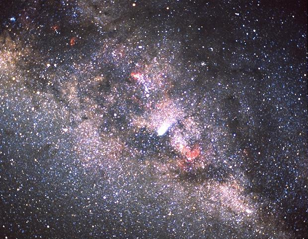 View of the Comet Halley and the Milky Way